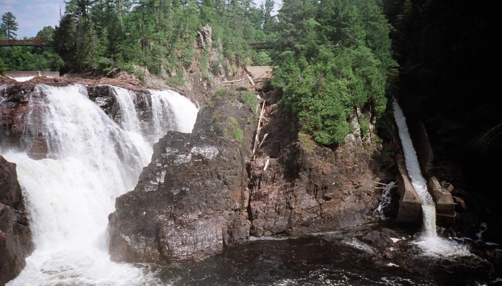 Chûtes Coulonge